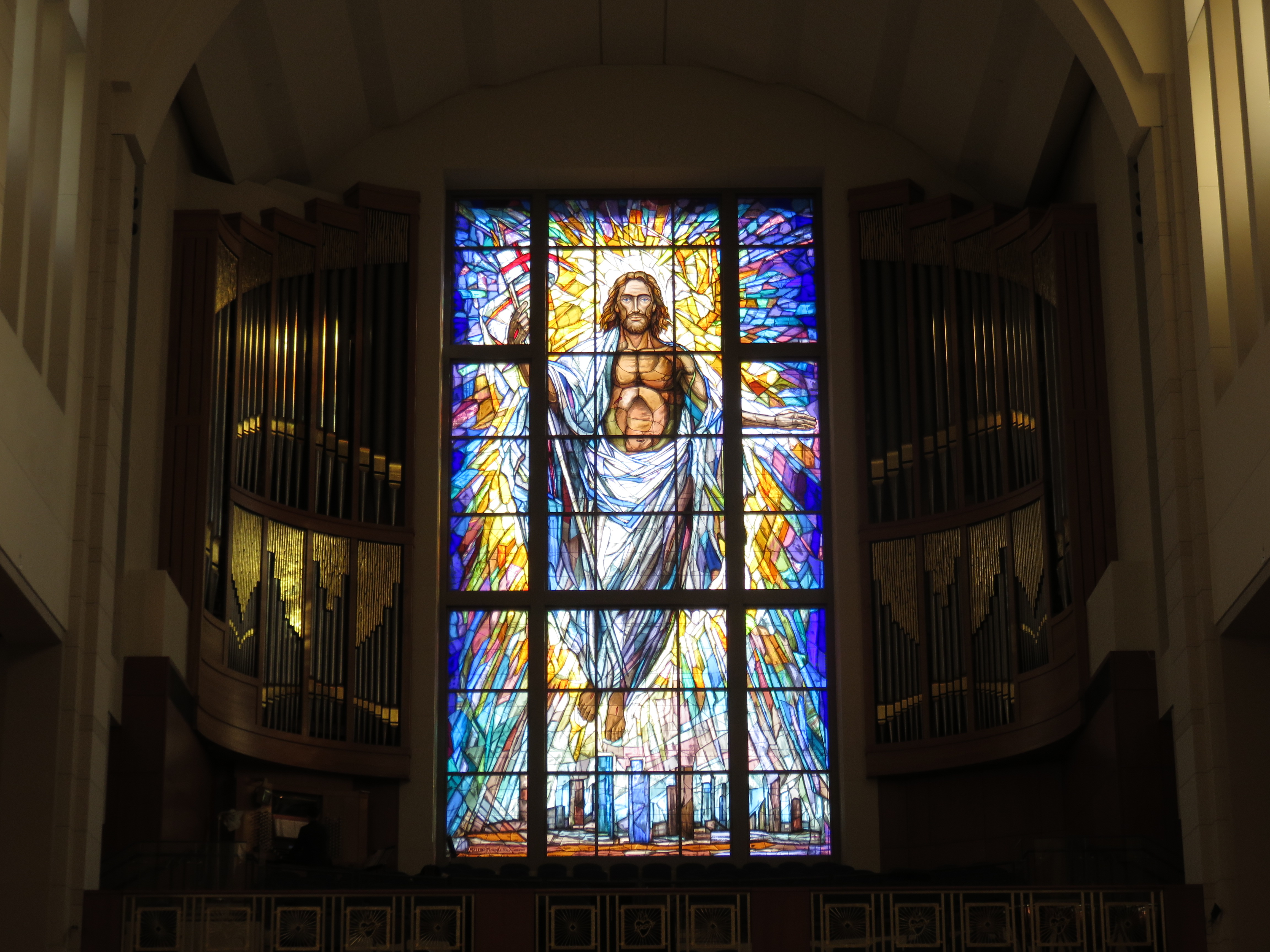 Interior of the Co-Cathedral of the Sacred Heart in Houston, Texas in 2018